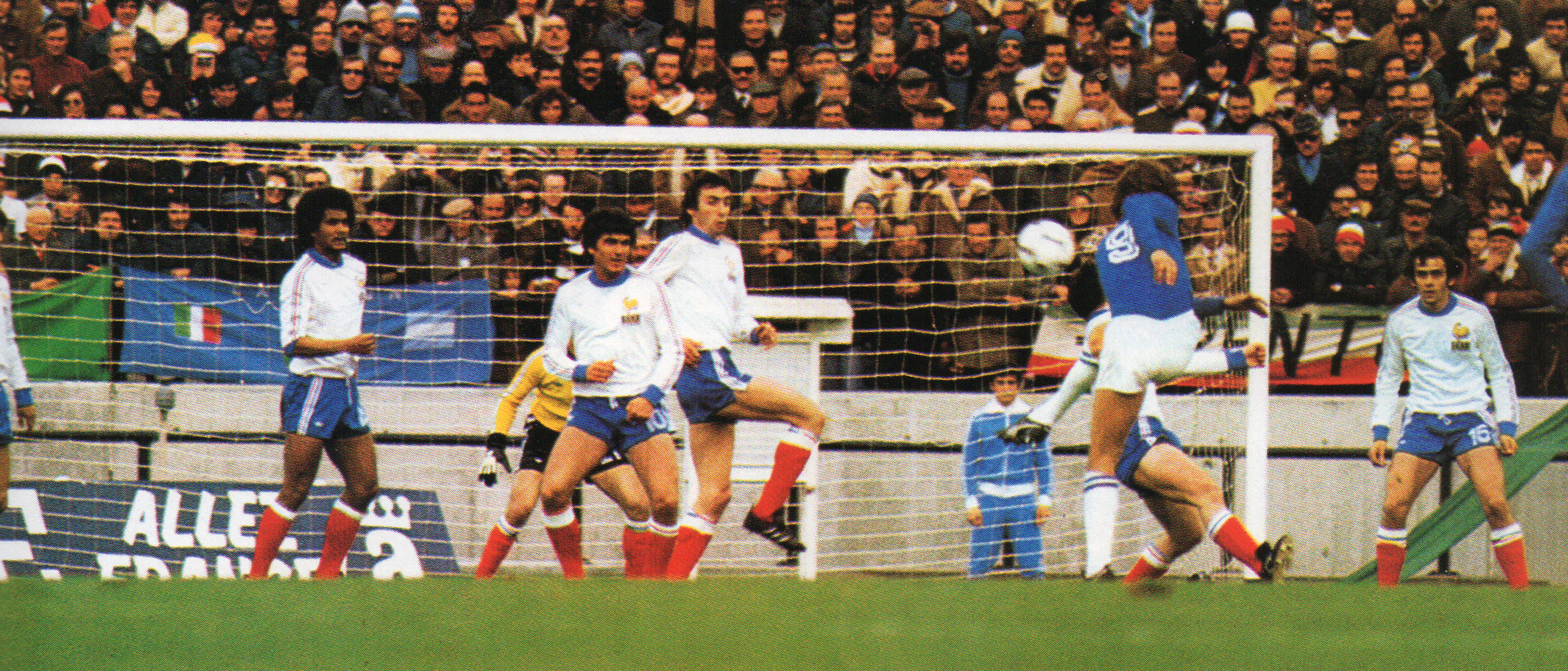 Giancarlo Antognoni (then 24 old) of Italy shots on goal during the group stage match vs France of FIFA World Cup 1978 in Argentina. At the centre, Frenchmen Gérard Janvion (then 24), Jean-Marc Guillou (32) and Maxime Bossis (22) attempt to contrast the shot while on the far right Michel Platini (22) watches.